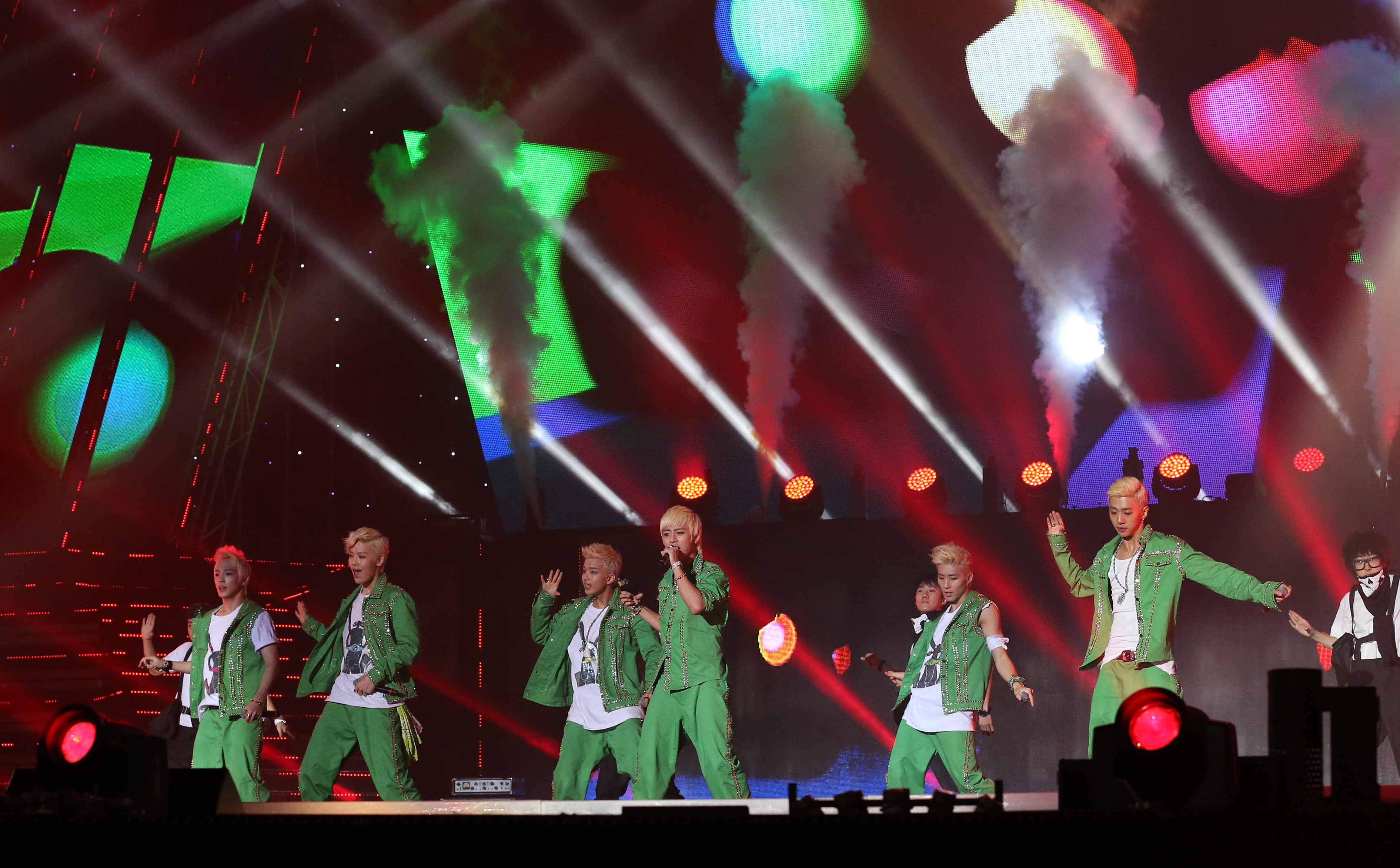 2012 K-POP World Festival Special Performance by B.A.P. Changwon, Korea 2012.10.28. Ministry of Culture, Sports and Tourism Korean Culture and Information Service Jeon Han 2012 K-POP 월드 페스티벌 B.A.P 축하공연 경상남도 창원시 문화체육관광부 해외문화홍보원 코리아넷 전한